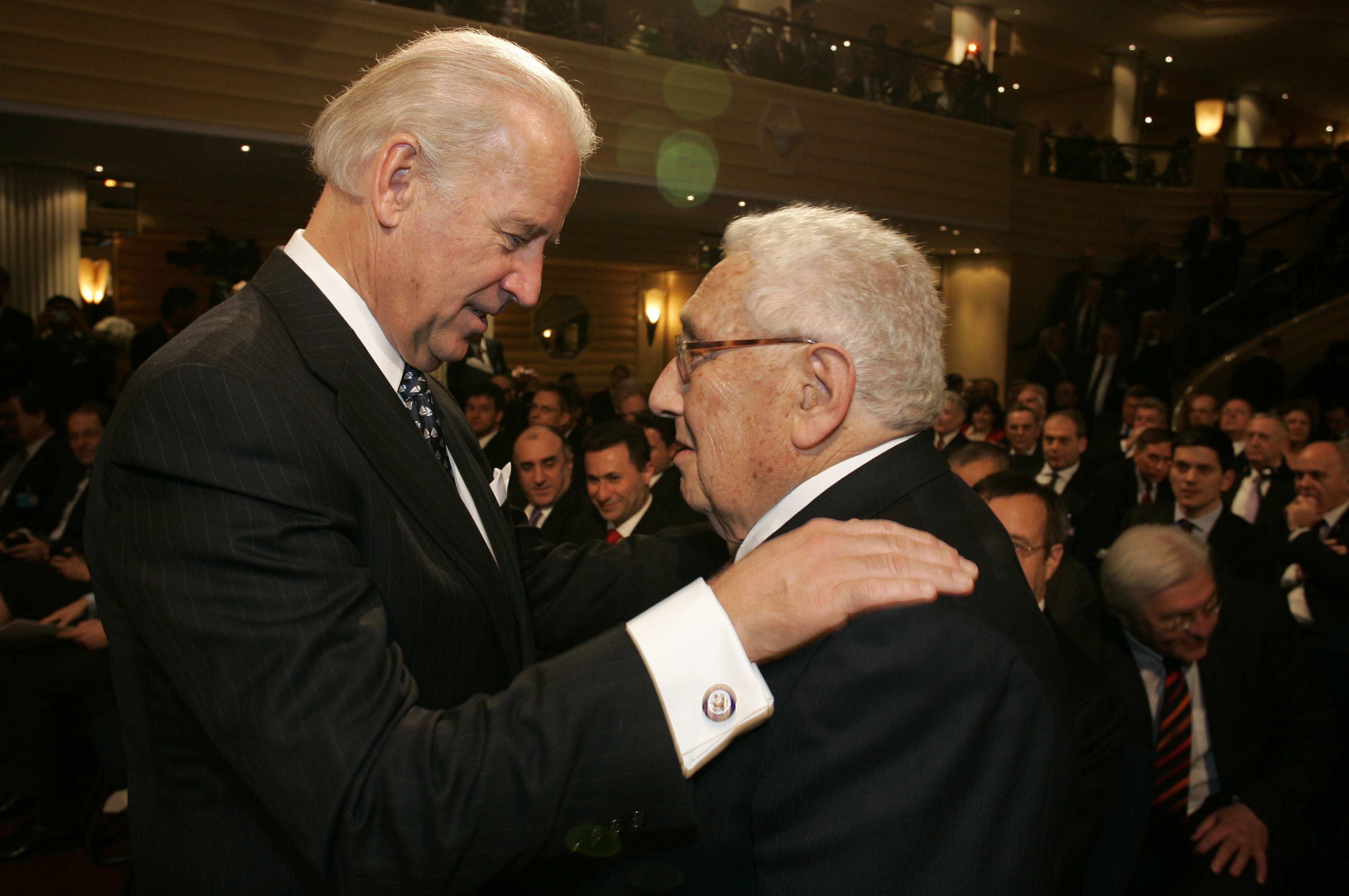 45th Munich Security Conference 2009: The Vice President, USA, Joseph R. Biden (le) and Dr. Henry A. Kissinger (ri).